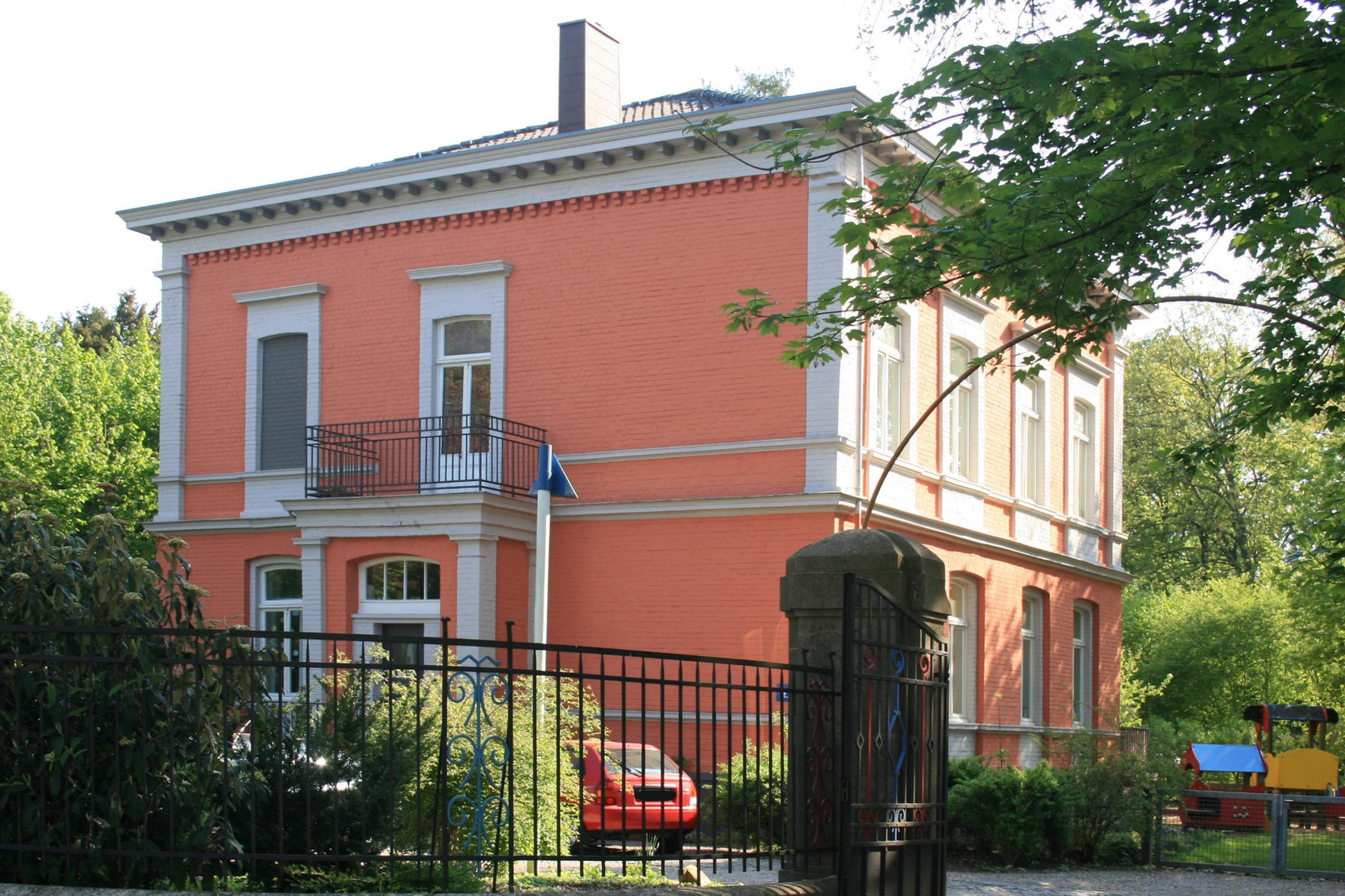 Cultural heritage monument No. 9/008 in Düren